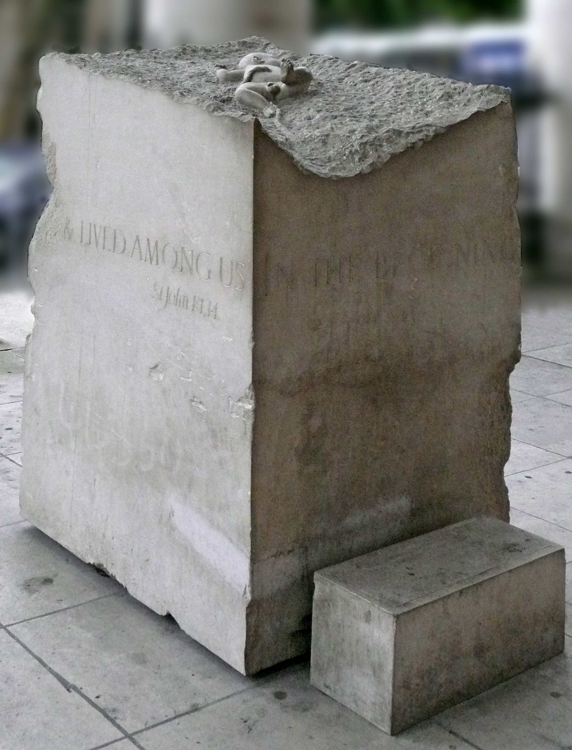 For more of the artist's work [1]